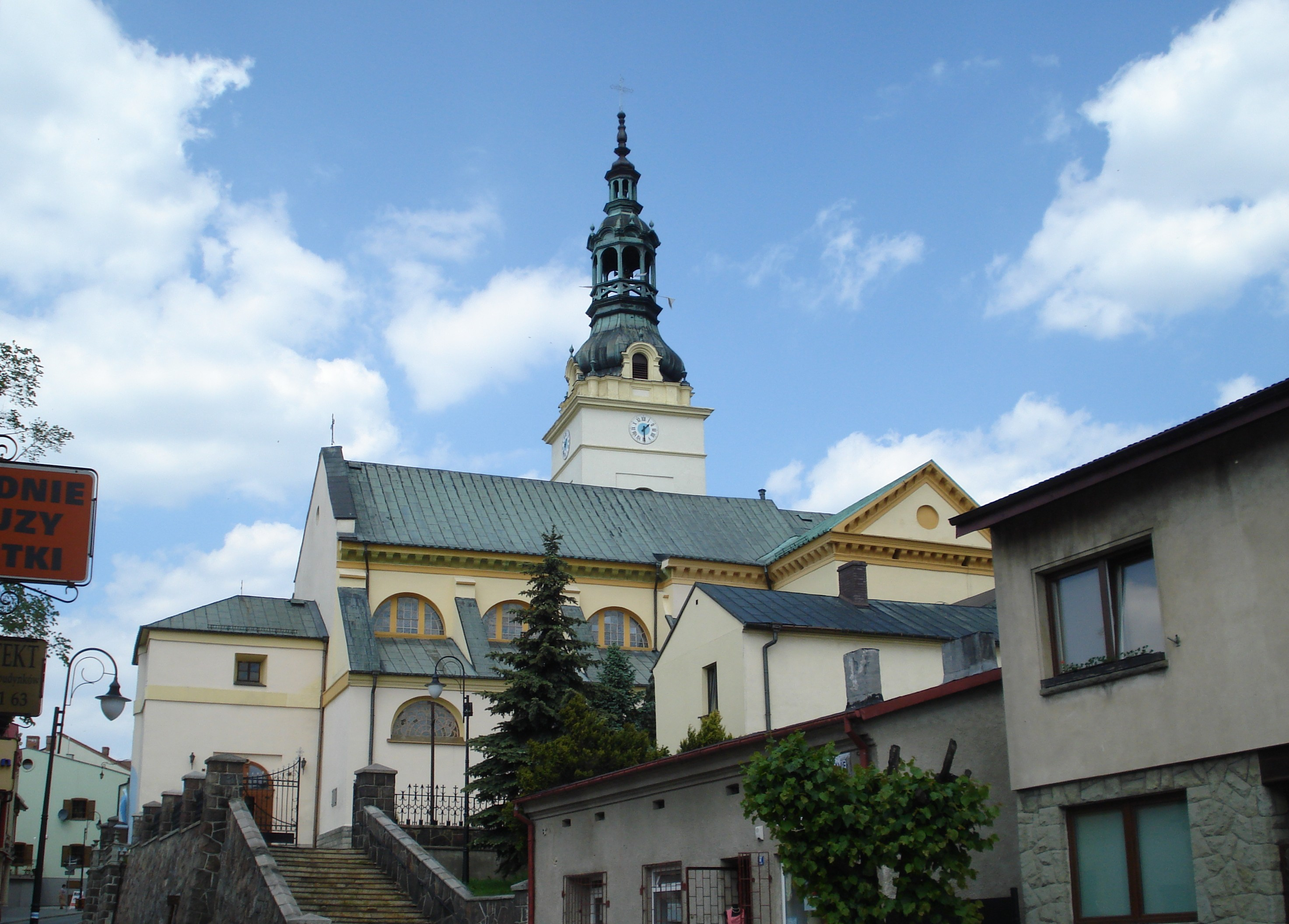 Saints Martin and Margaret church in Kłobuck